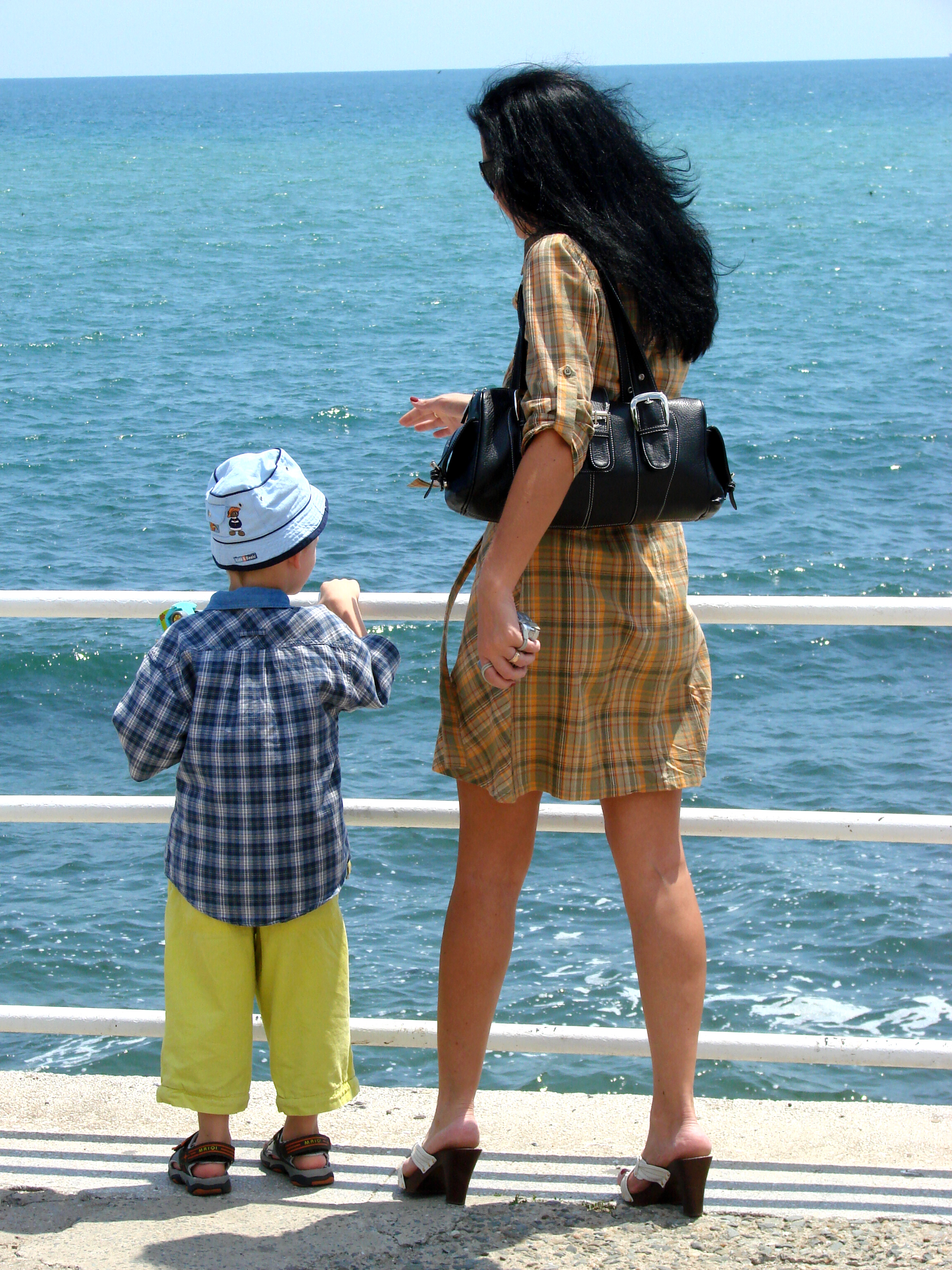 Woman and child along the seafront, Constanta, Romania. June 2007.